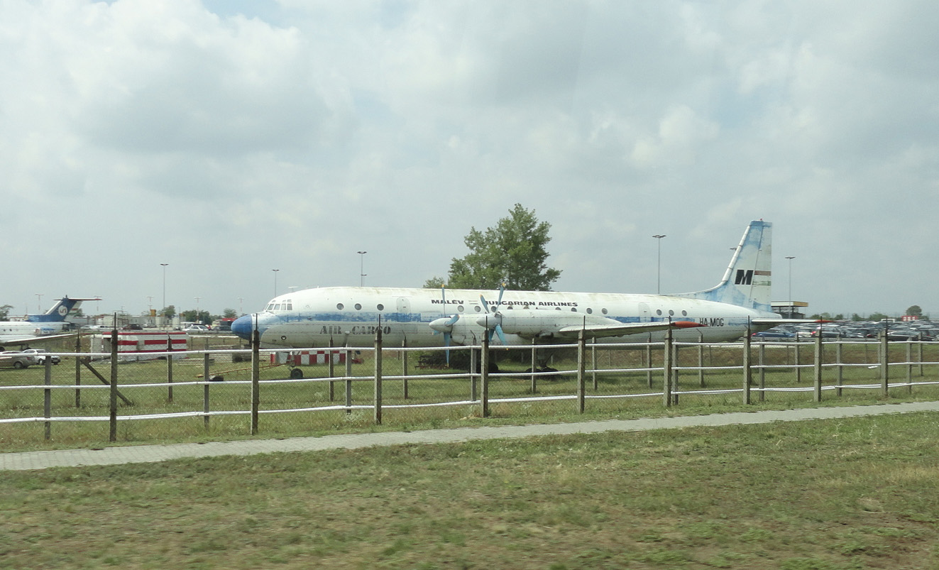 Il–18V - Malév (HA-MOG) arcraft at the Ferihegy Aircraft Memorial Park